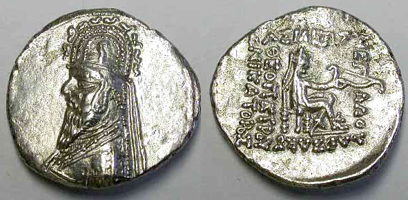 Coin of Gotarzes I of Parthia. Reverse shows a seated archer holding a bow. The Greek inscription reads ΒΑΣΙΛΕΩΣ ΜΕΓΑΛΟΥ ΑΡΣΑΚΟΥ ΘΕΟΠΑΤΡΟΥ ΝΙΚΑΤΟΡΟΣ (great king Arsaces, god father, conqueror).